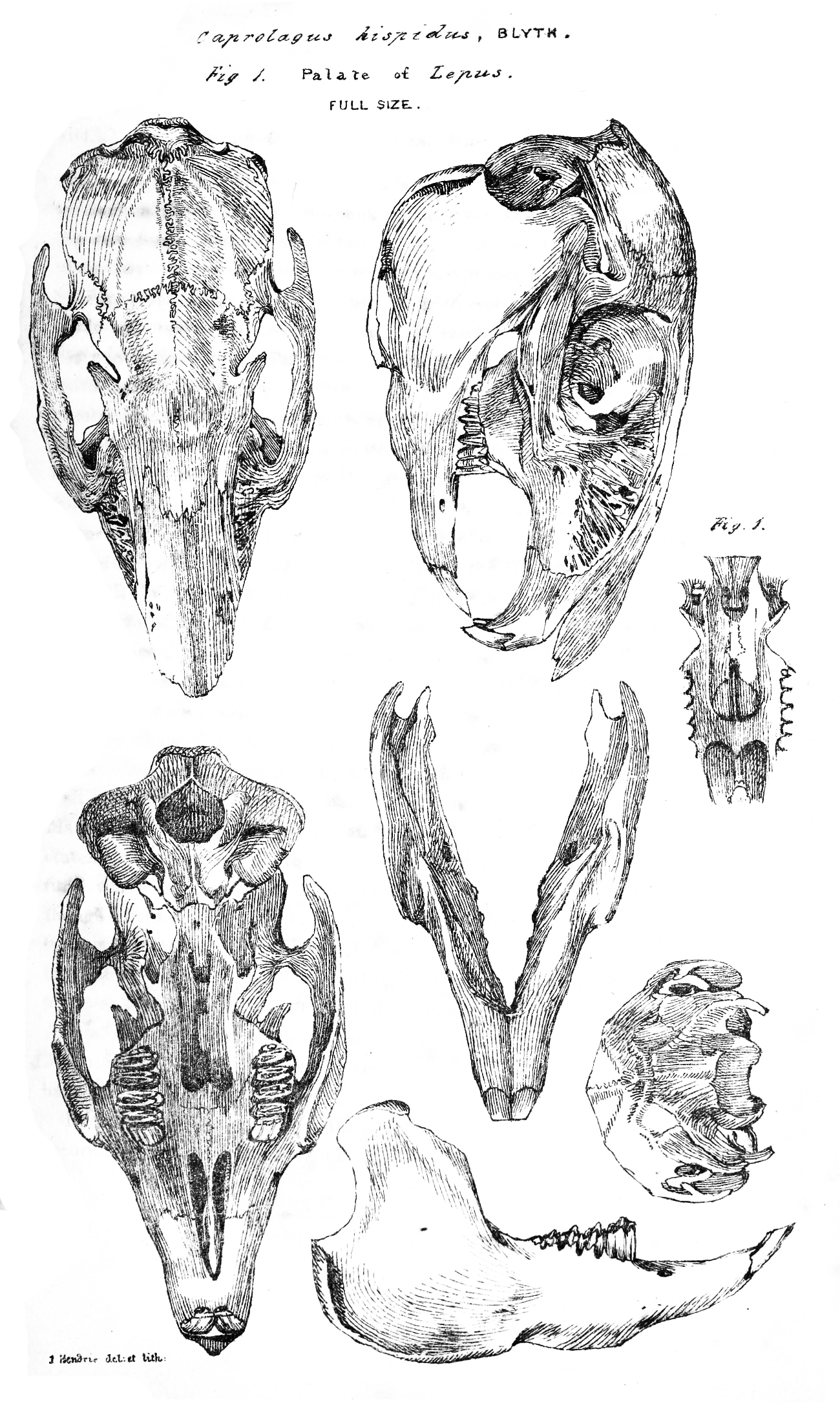 Palate and skull of Hispid hare Caprolagus hispidus